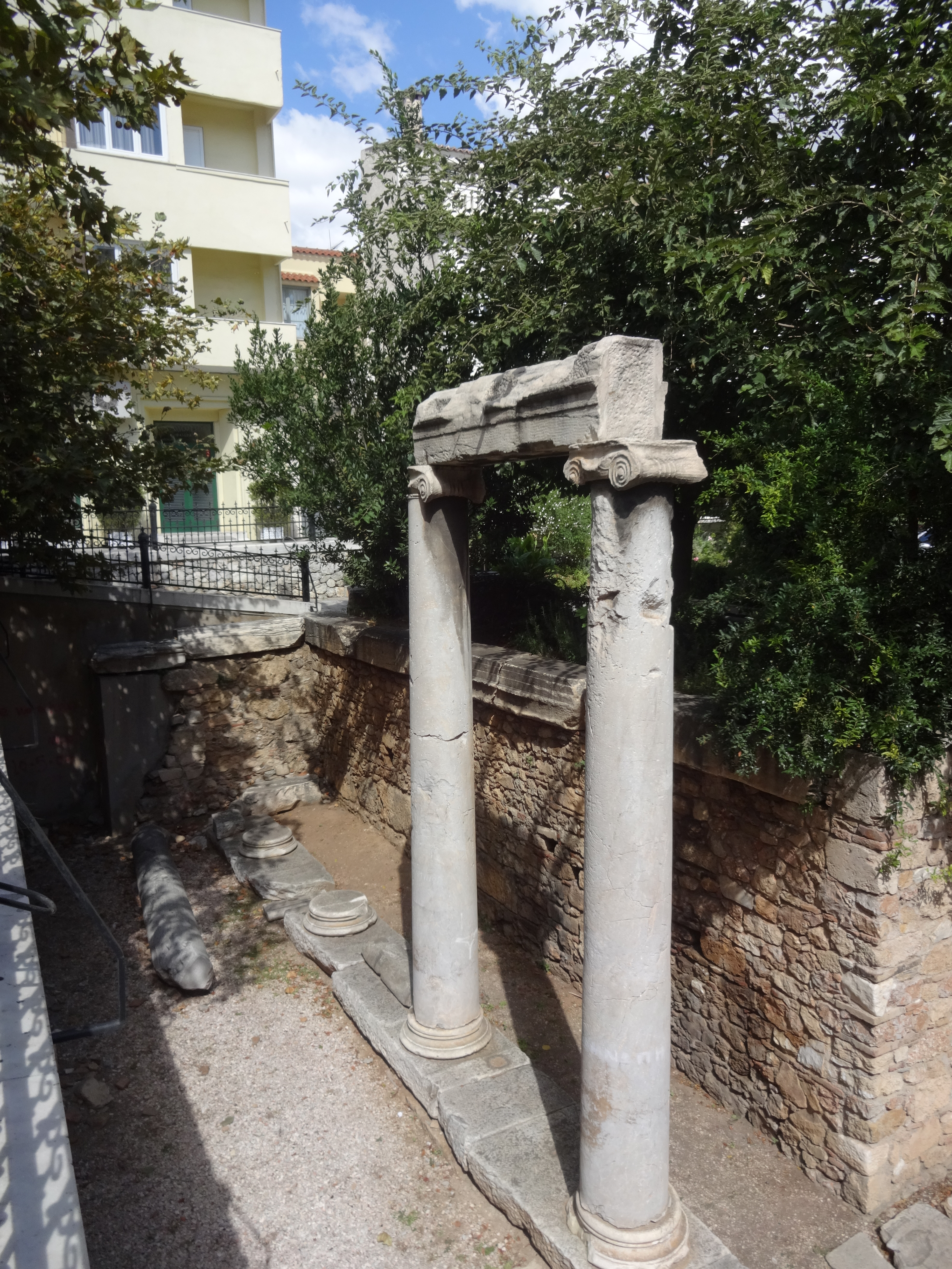 Ancient ruins on the territory of byzantine church of St Ekaterini, Plaka, Athens, Greece